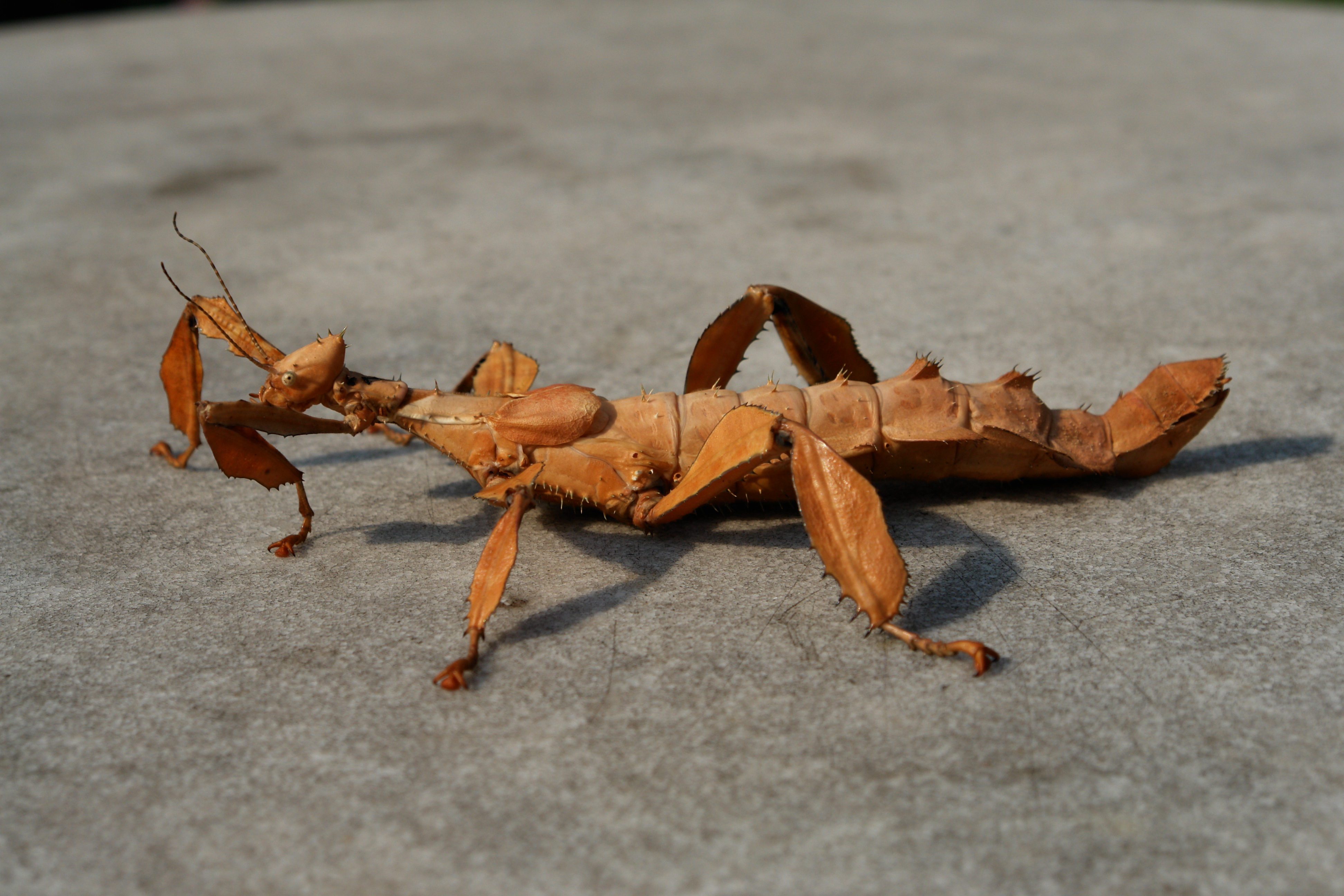 Extatosoma tiaratum, Insect, female, after 5th molt